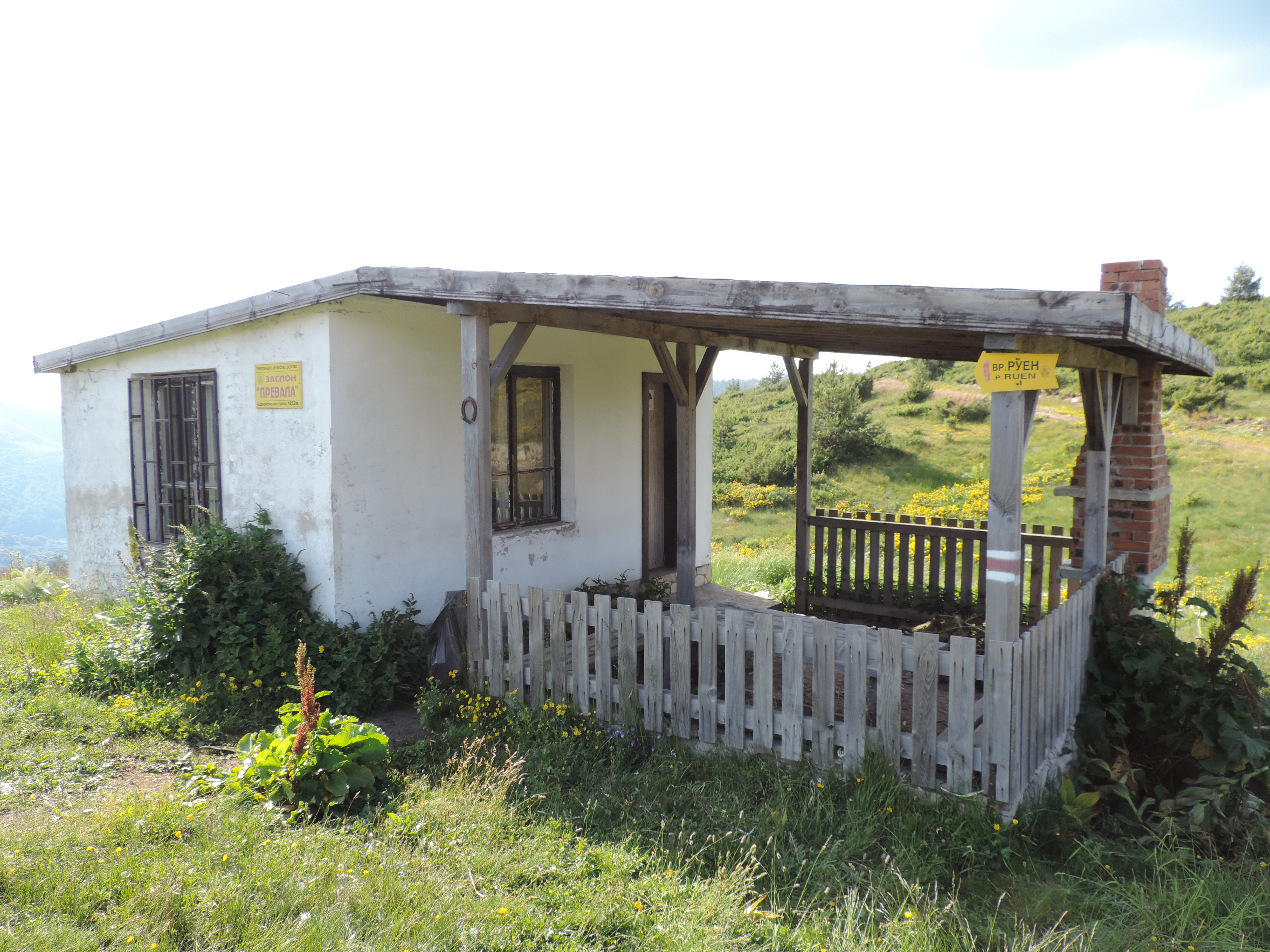 Prevala hut 1852 m), Osogovo, Bulgaria